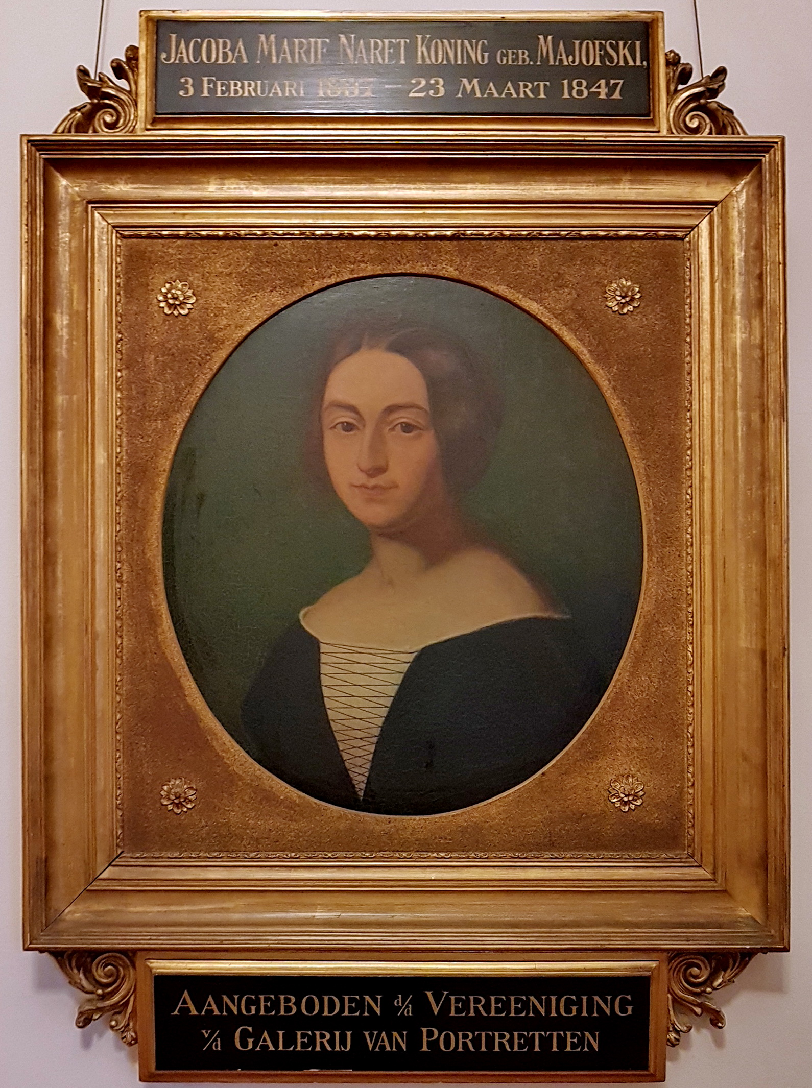 Portrait of Dutch actress Cornelia Naret Koning-Majofski (1807-1847) by Matthieu Wiegman in a corridor of Stadsschouwburg, Amsterdam's municipal theatre on Leidseplein, Amsterdam, the Netherlands.